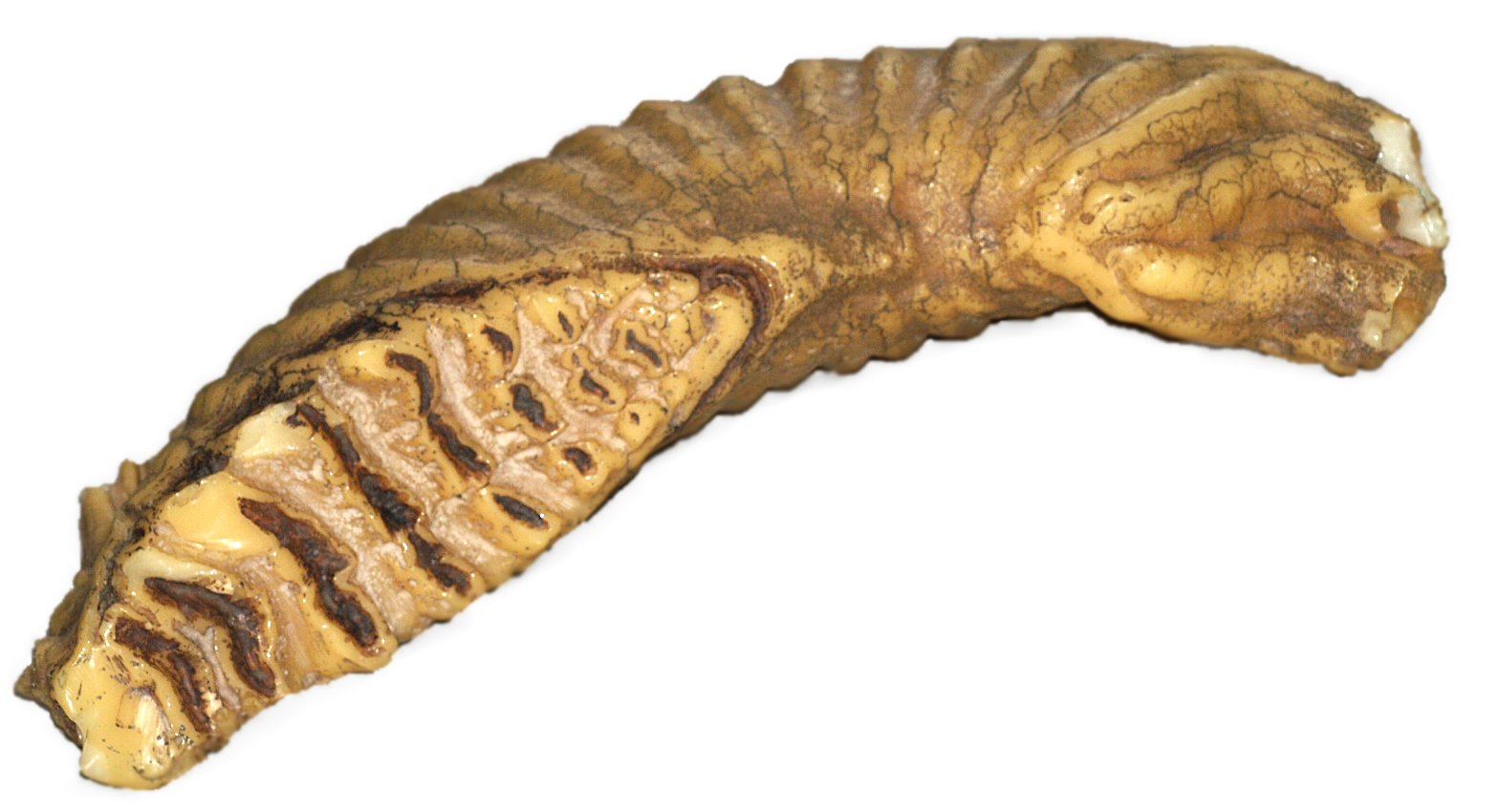 Replica of a molar of Elephas maximus, showing upper side. From Cologne Zoo, Germany.